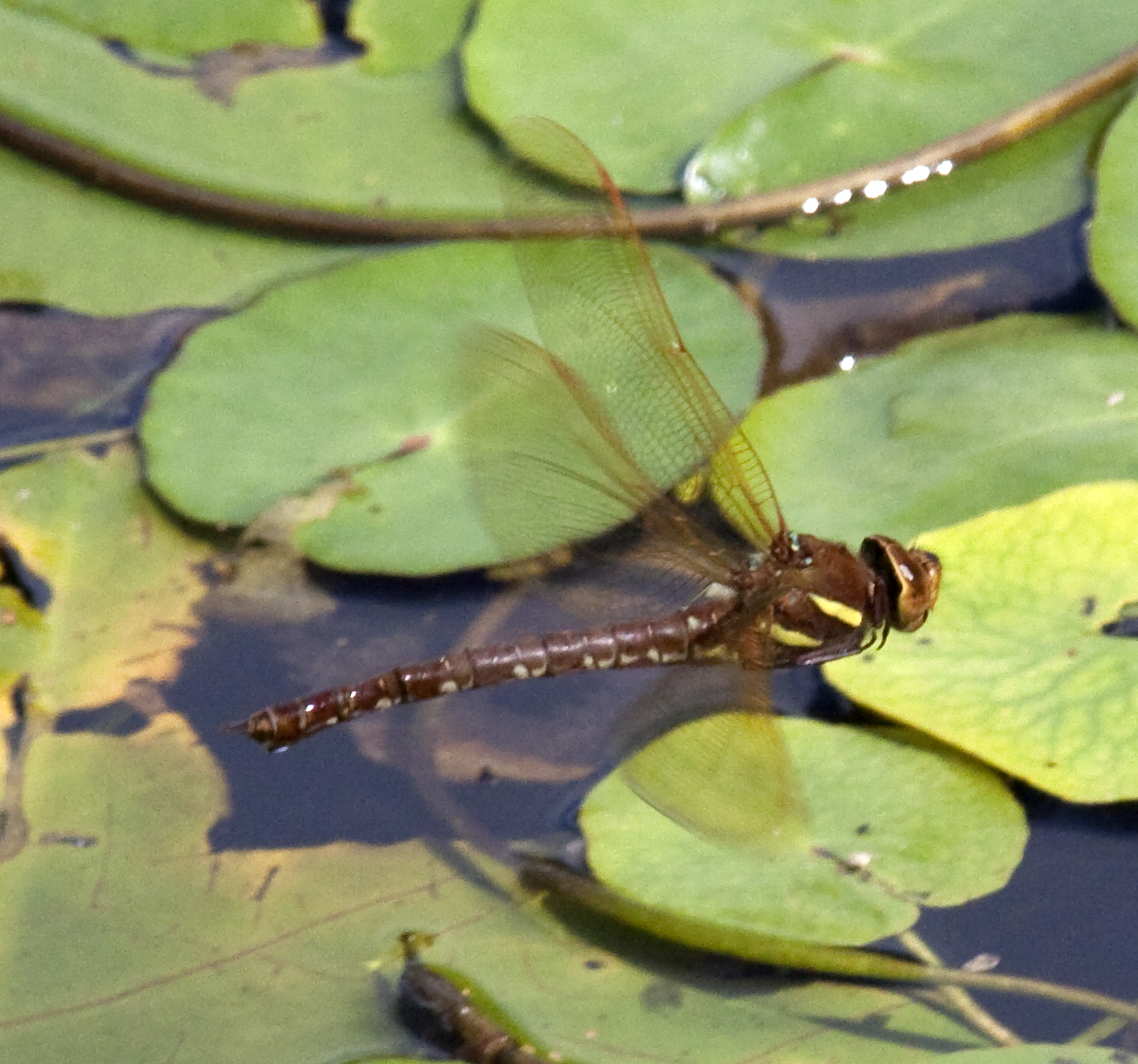 Aeshna grandis female.